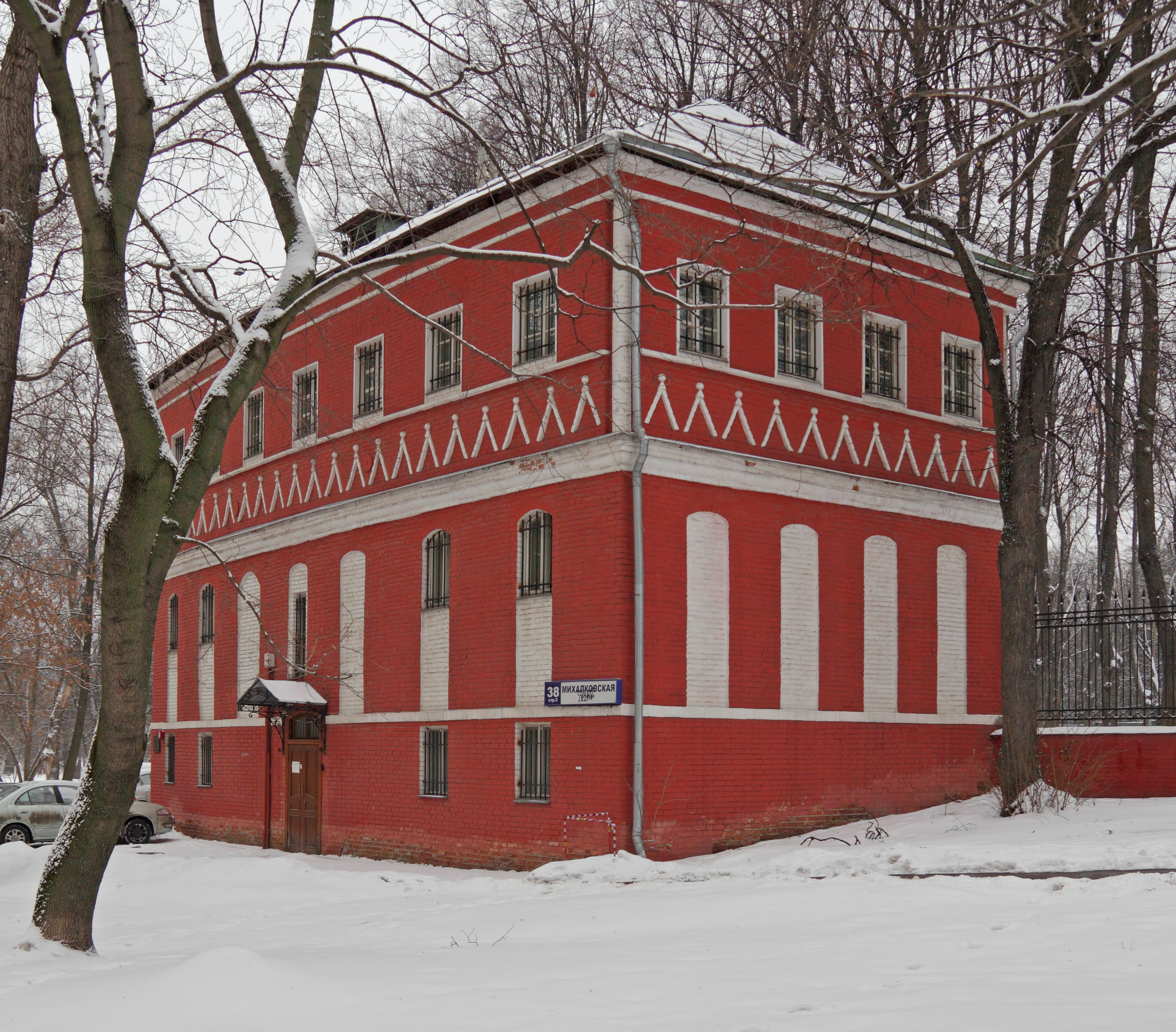 Some buildings of the former Mikhalkovo Estate in Moscow, Russia.